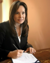 U.S. Treasurer Rios signs her name to an official document at her swearing-in ceremony.